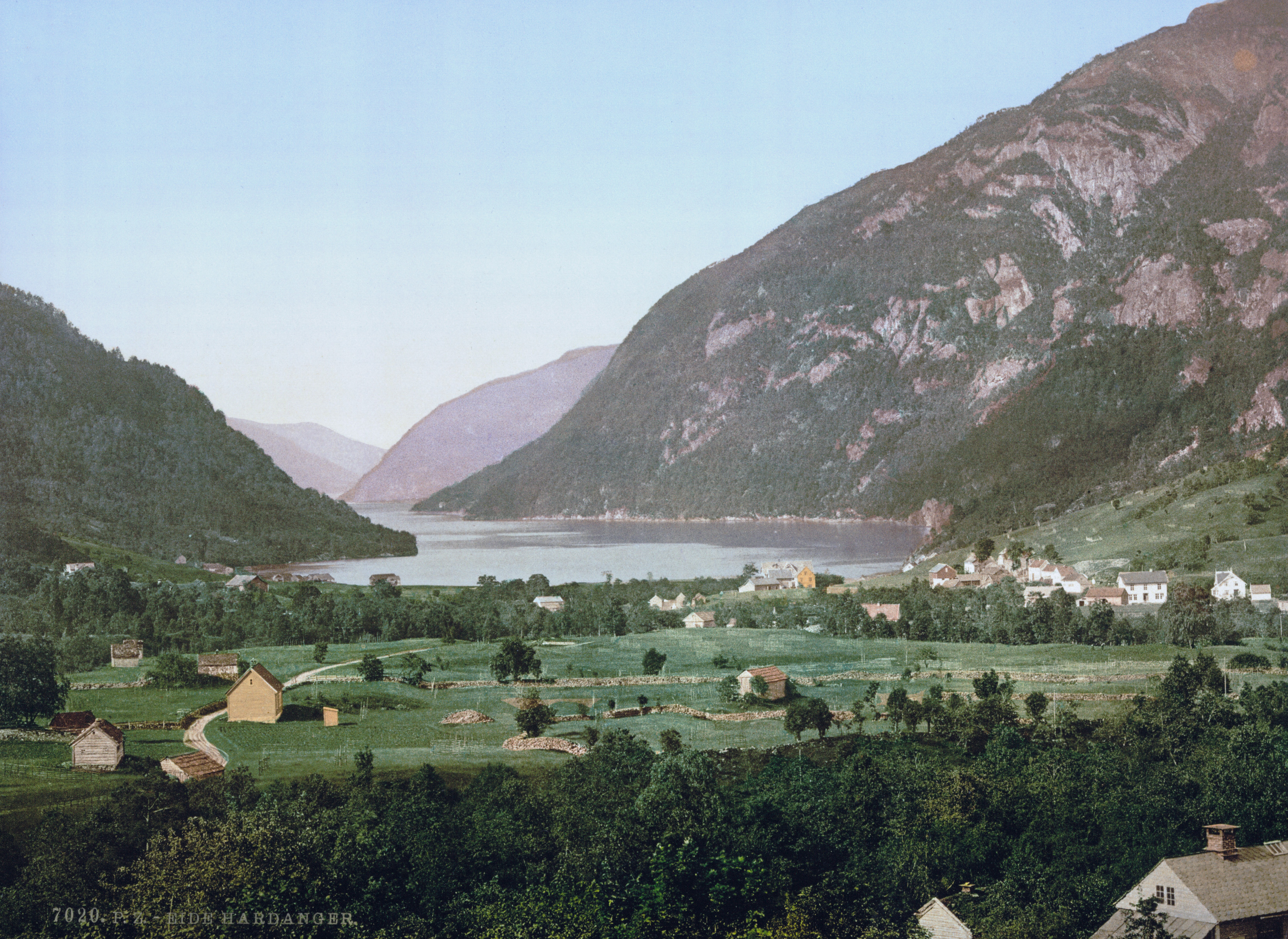 Eide Hardanger, Hardanger Fjord, Norway 1905, Print no. "7020".